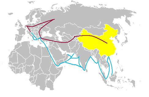 New "silk road" paths